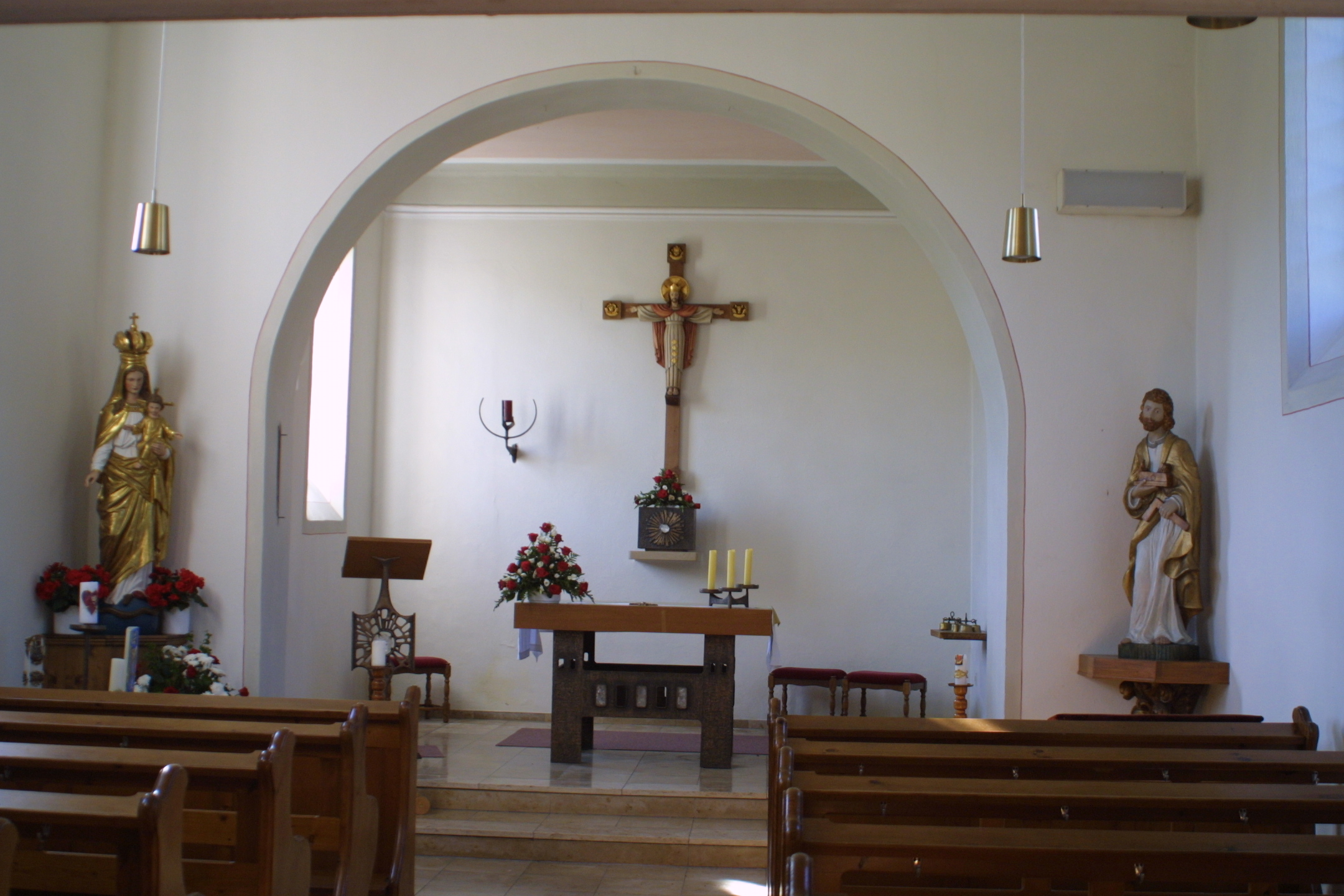 chapel in Germany